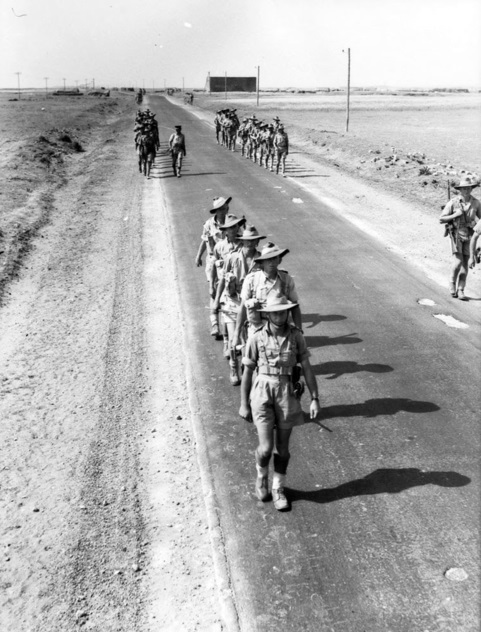 Troops from the Australian 2/15th Infantry Battalion complete a 100-mile march around Tripoli, Syria, April 1942